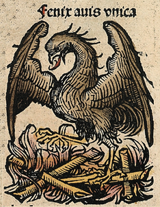 This is a part of a scan of an historical document: Title: Schedelsche Weltchronik or Nuremberg Chronicle